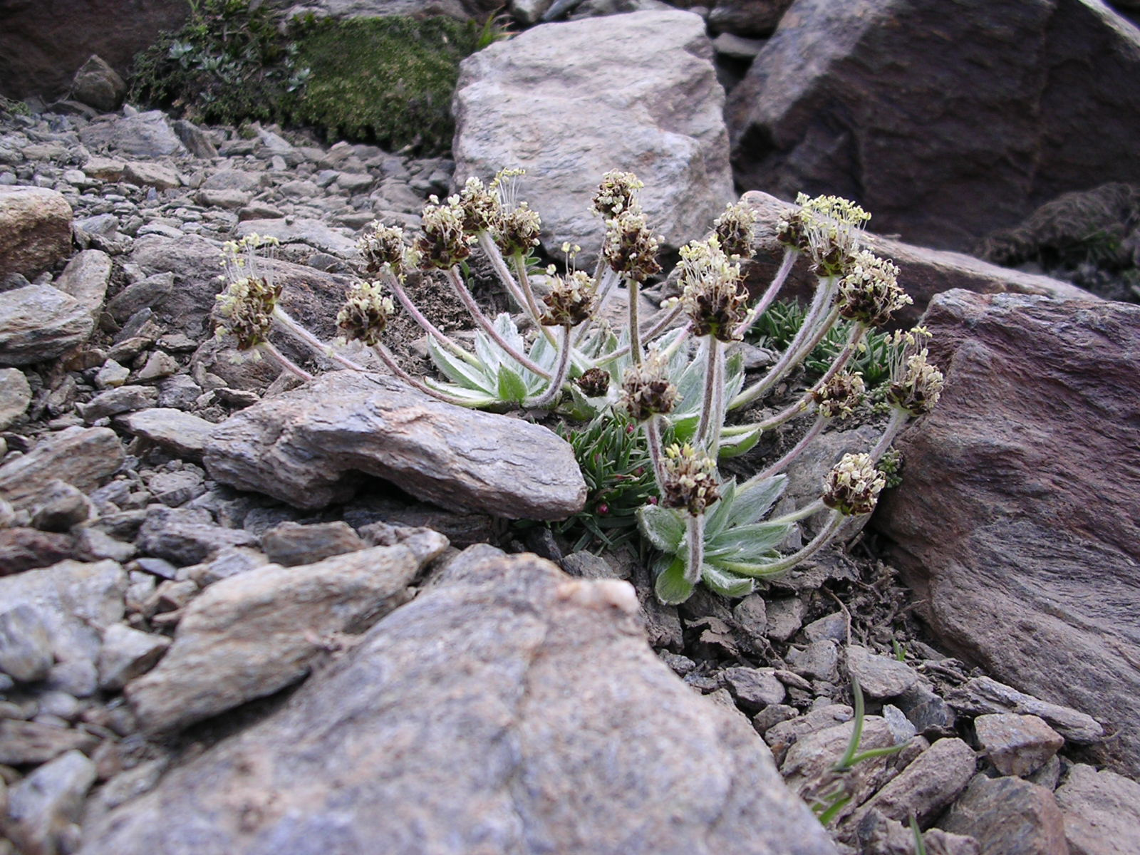 Plantago nivalis flowering